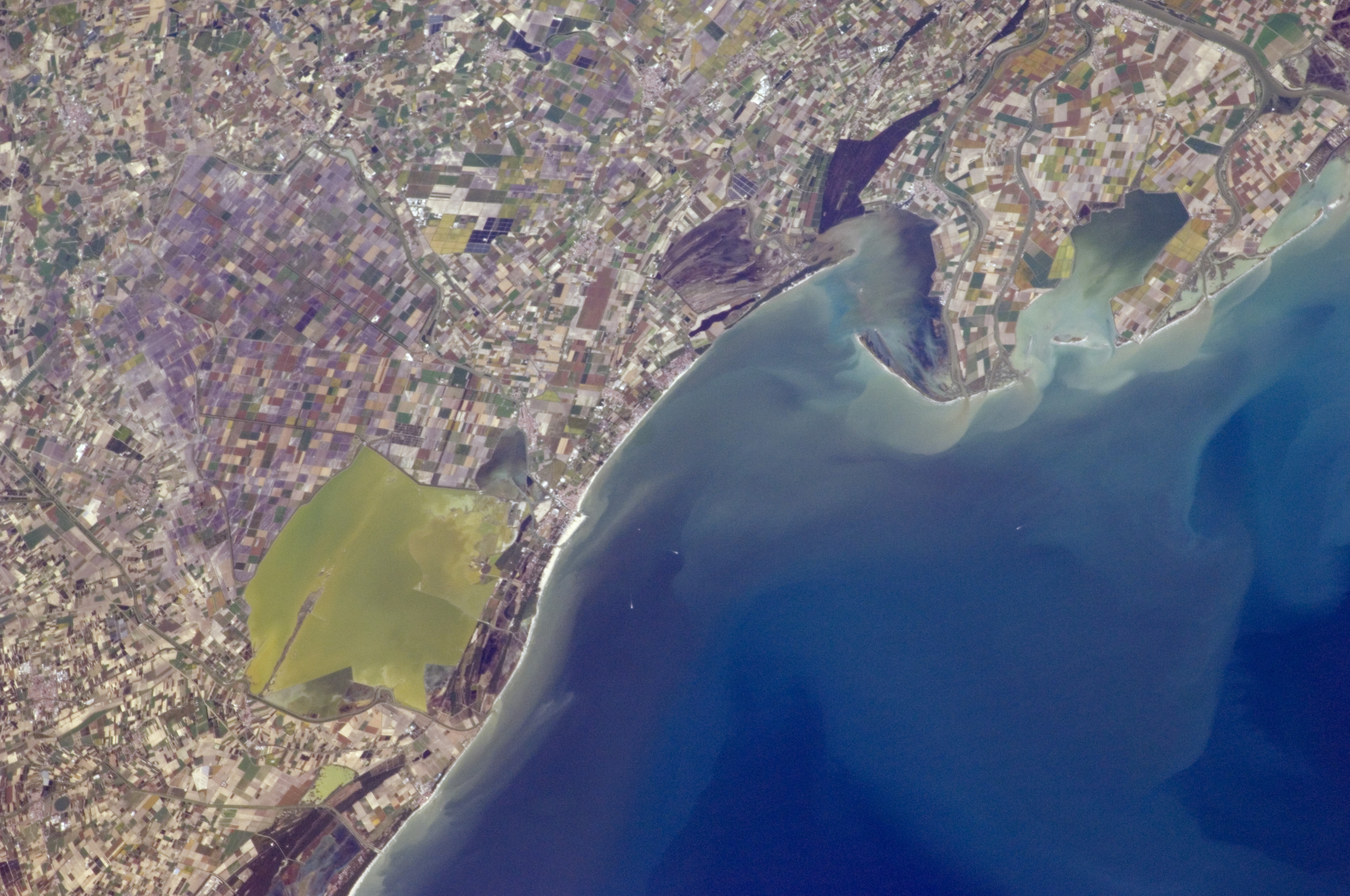 Delta of Po river and Valley of Comacchio.